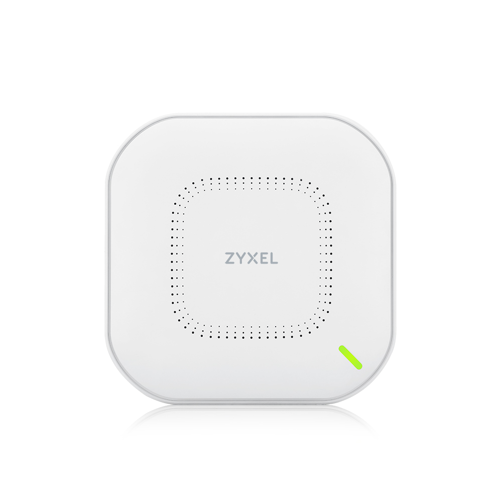 WiFi Access Point